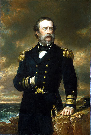 Samuel Francis du Pont (1867 – 68), oil on canvas. National Portrait Gallery, Washington. Posthumous portrait of du Pont (1803 – 1865), a U.S. Navy admiral and member of the Du Pont family.